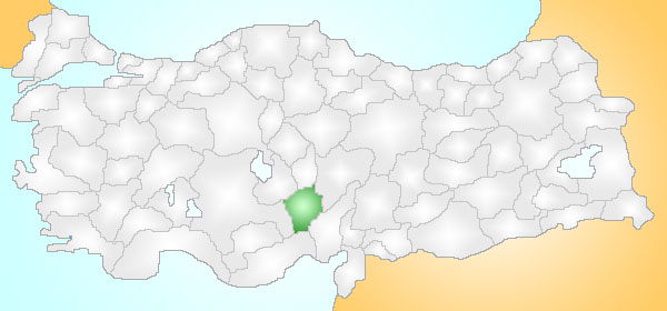 Shows the location of the Niğde province in Turkey